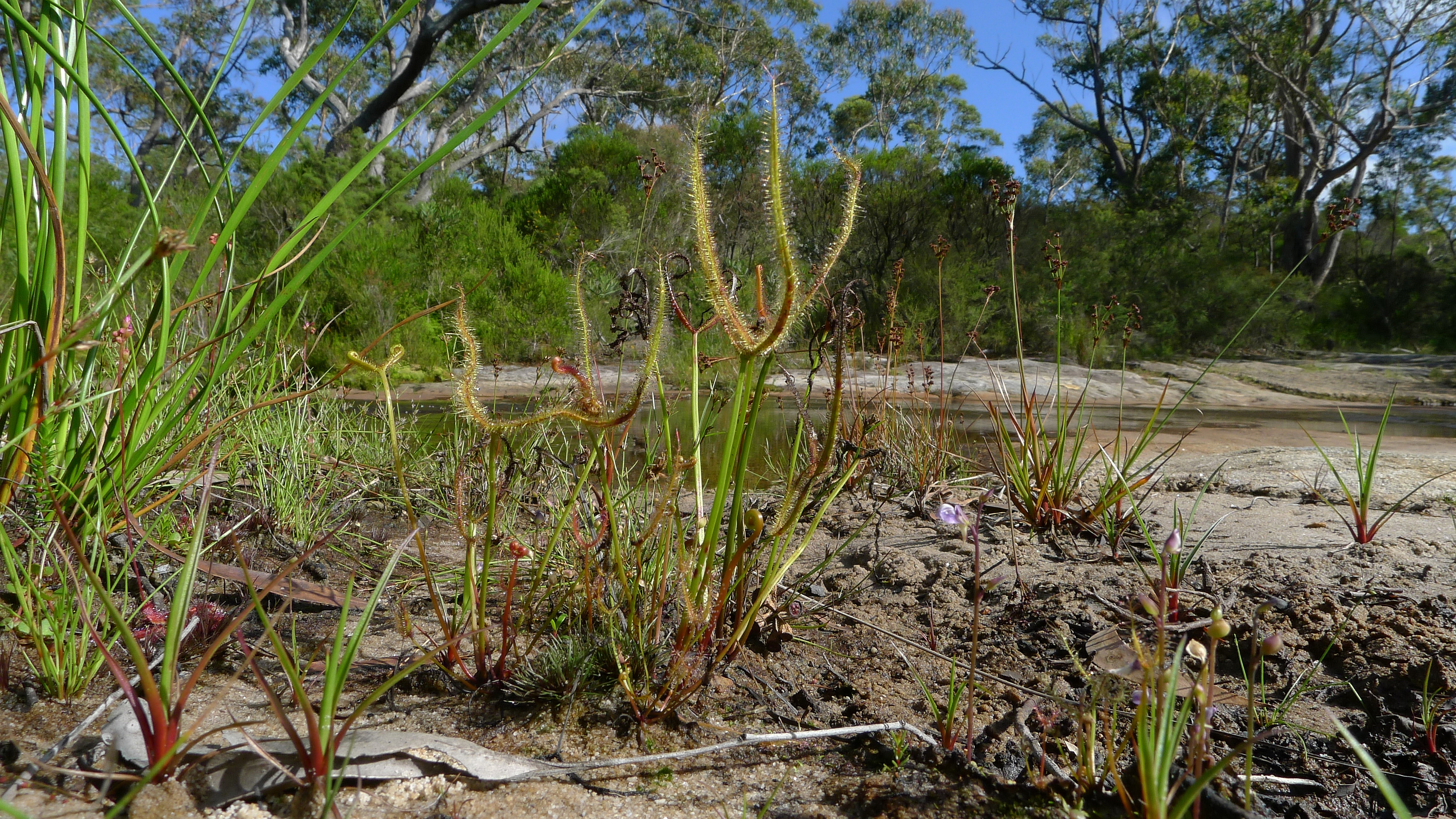 Forked Sundew, Drosera binata, habit. Dharawal National Park, NSW Australia, January 2014.